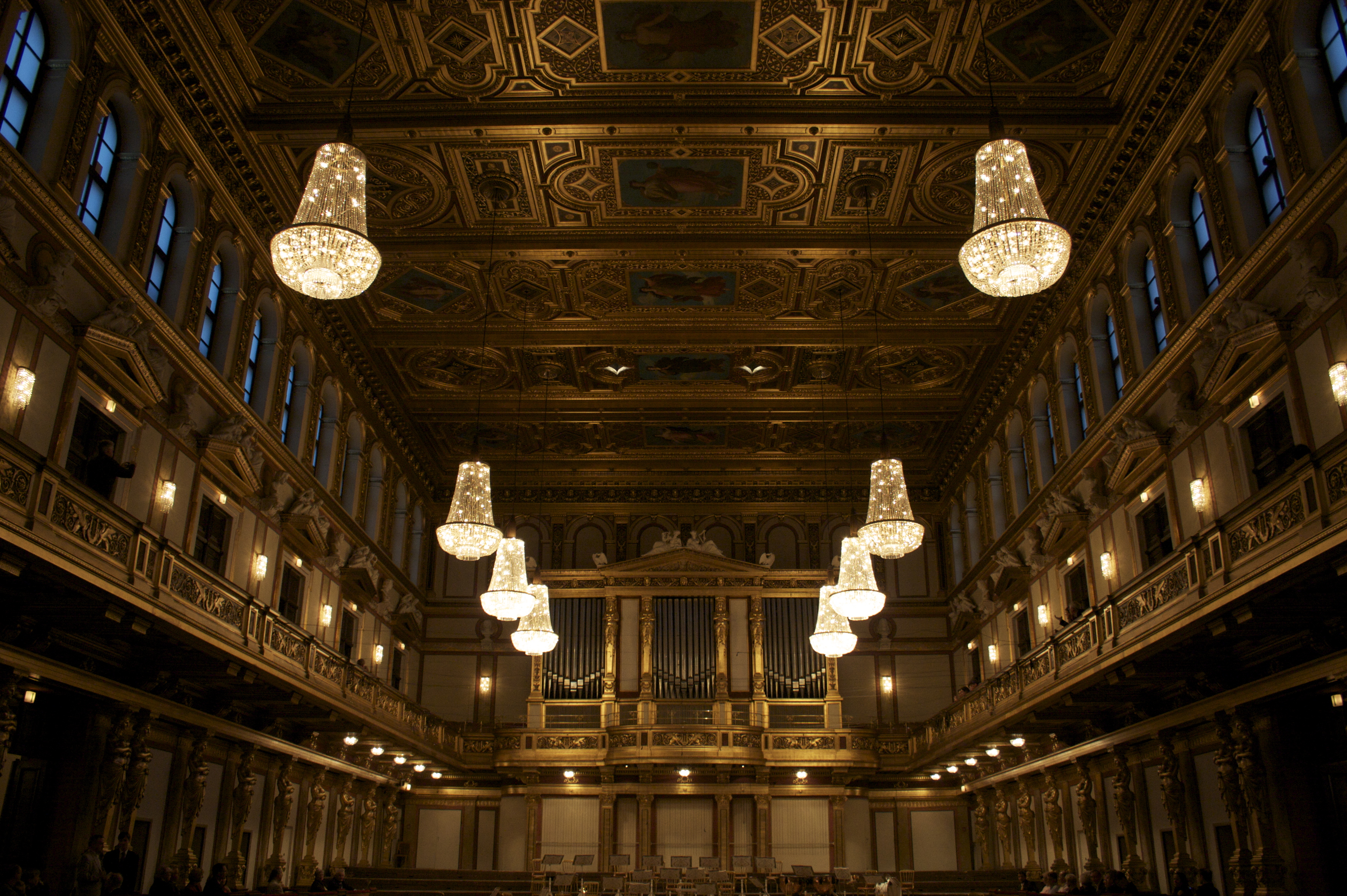 Wiener Musikverein